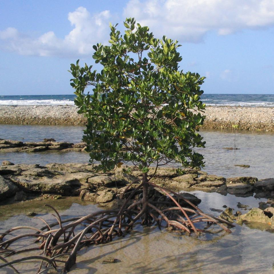 Mangrove (Rhizophora sp.) in Queensland. Photographed by Muriel Gottrop in September 2005.